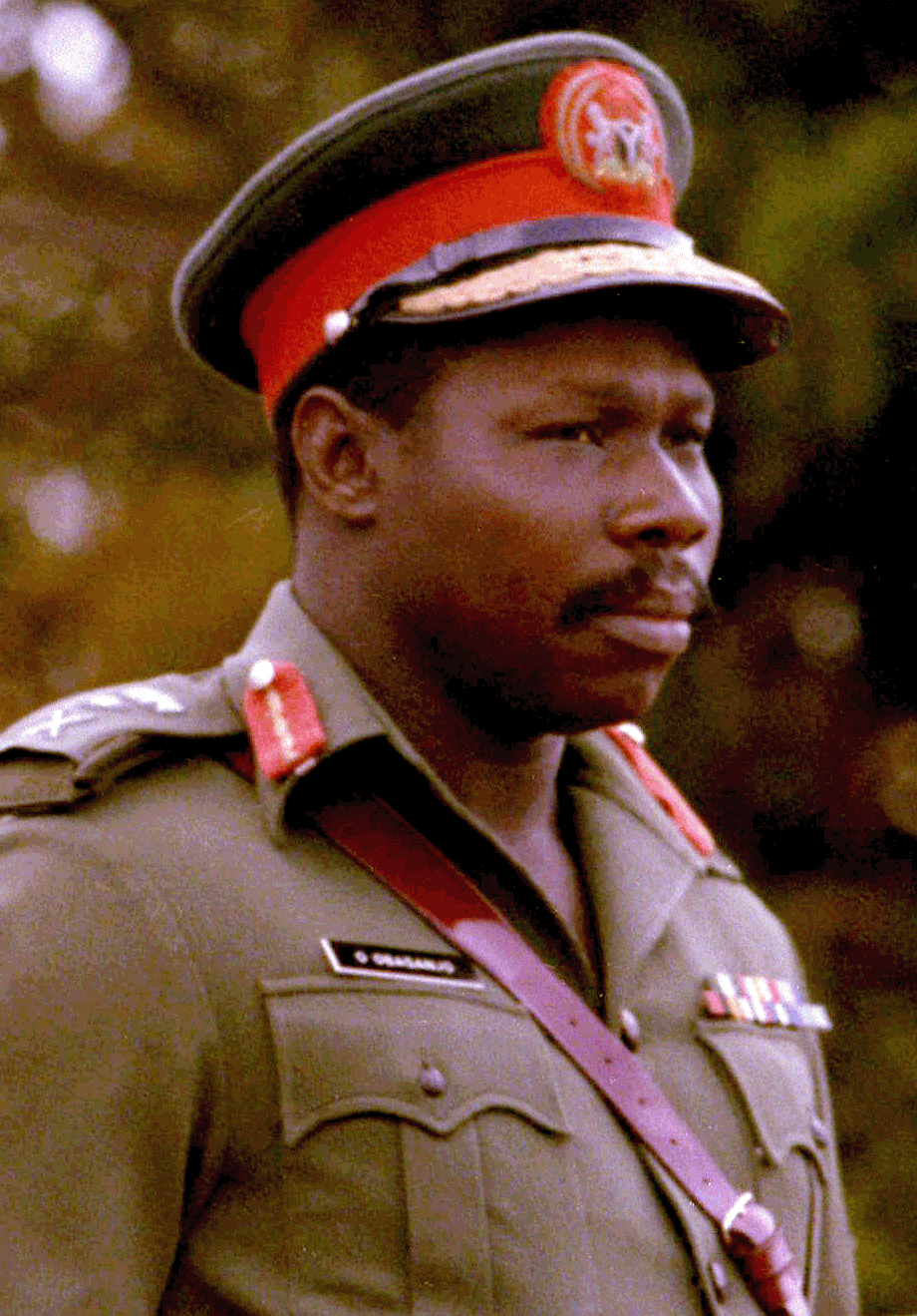 Olusegun Obasanjo (with Jimmy Carter, cropped version)